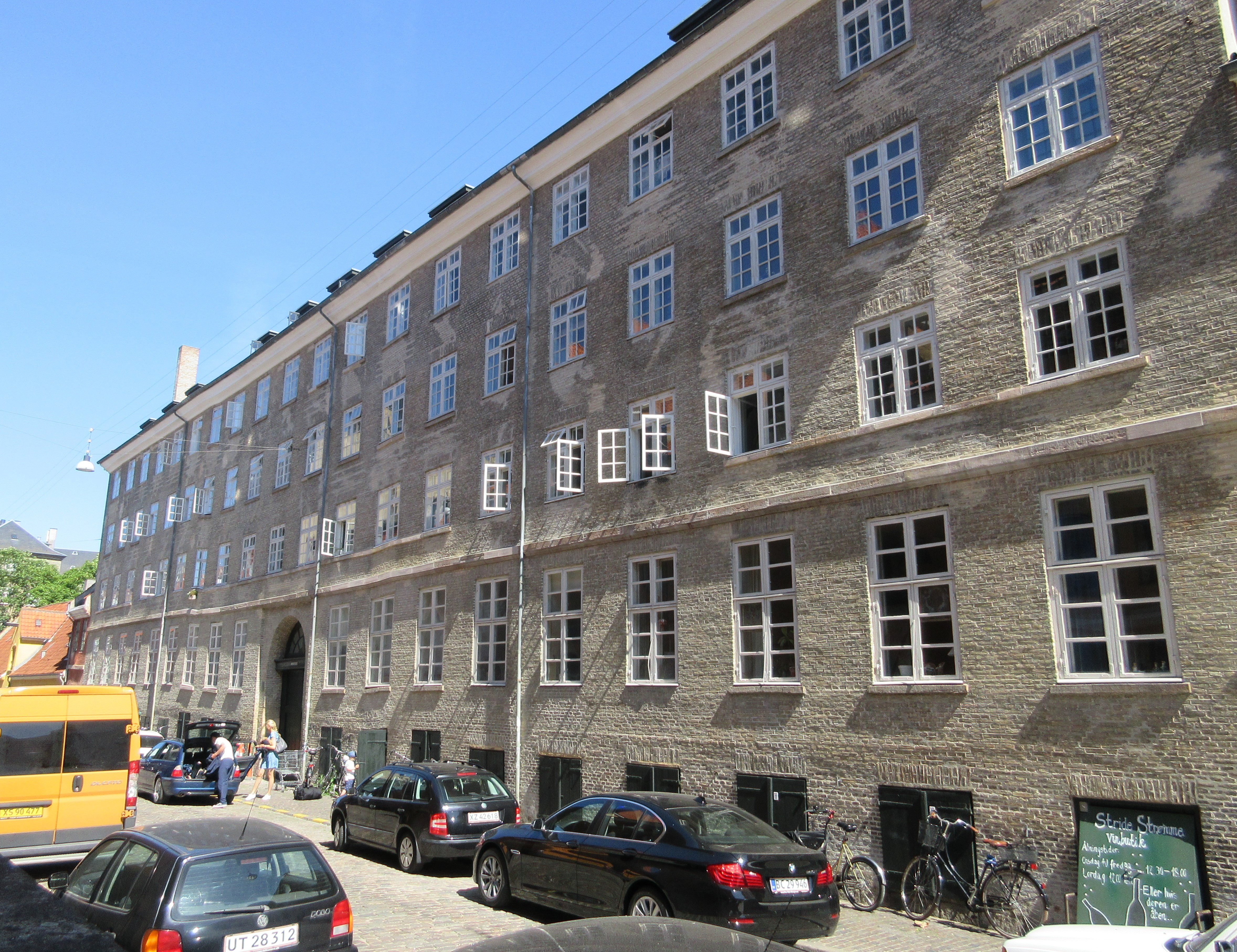 The former main building of Wildersgade Barracks in Copenhagen, Denmark